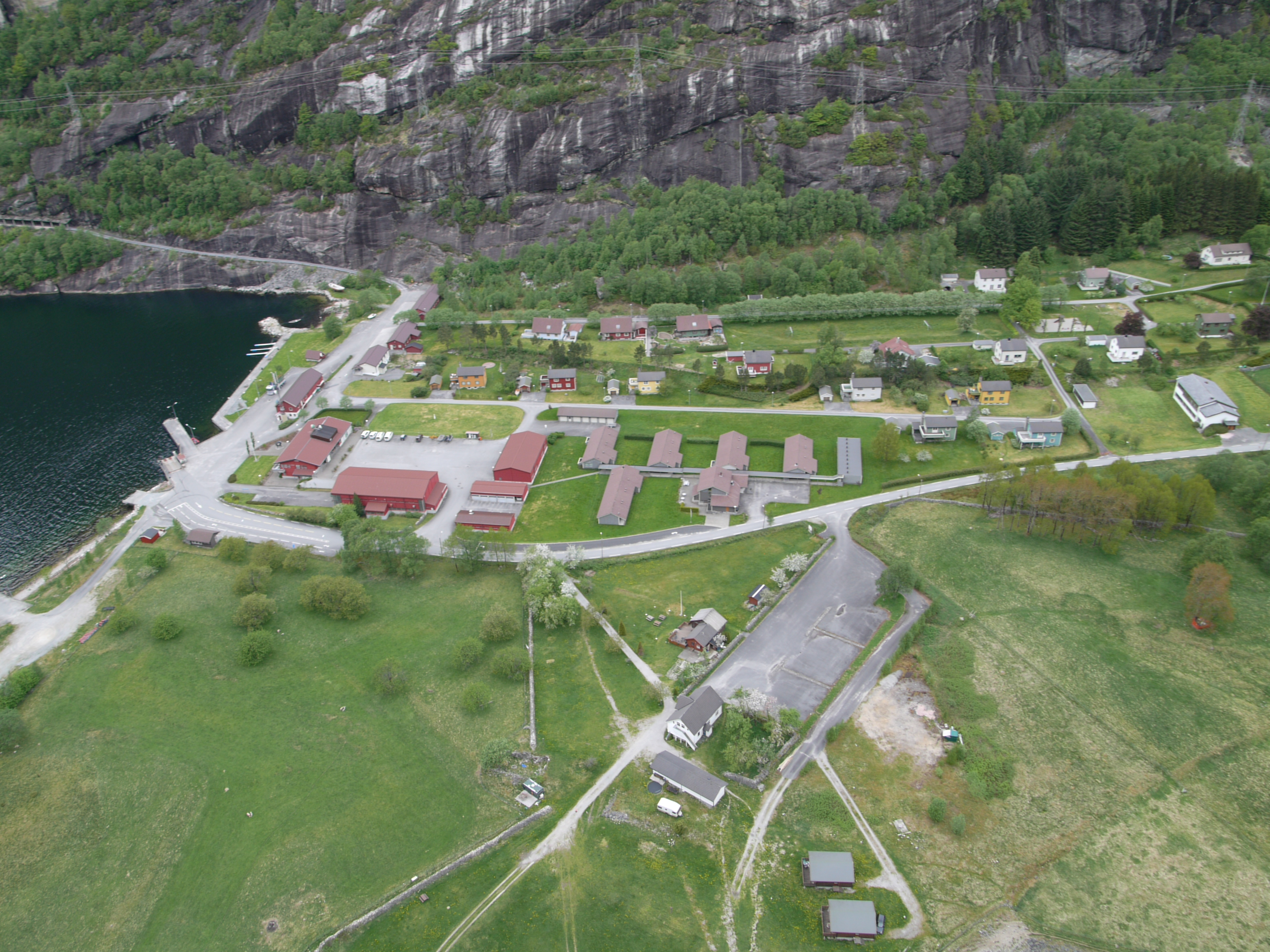 Lysebotn, Lysefjorden, Rogaland, Norway